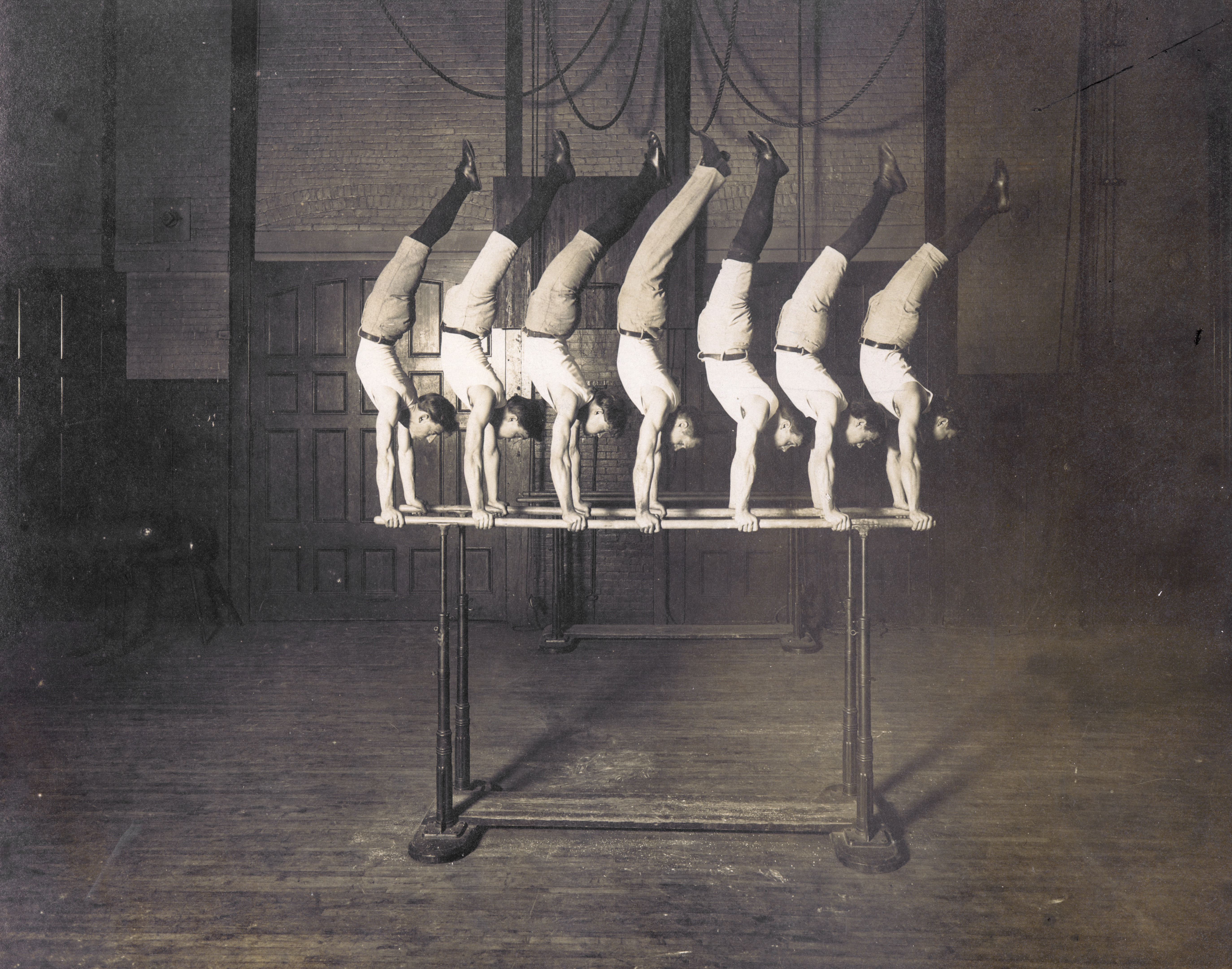 Title: First Active Class, Concordia Turnverein. George Eiser [Eyser], center.